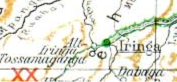 Extract from topographical map of German East Africa showing situation of present Iringa (German colonial foundation) and Alt-Iringa ("Old-Iringa"), today Kalenga in central Tanzania Kiswahili: Ramani ya 1914 ya Kijerumani inaonyesha Iringa (iliyoundwa kama kituo cha Kijerumani na kuwa mji wa leo) pamoja "Alt-Iringa", inayojulikana leo kama Kalenga. Hii ilikuwa mji mkuu wa Mtemi Mkwawa.